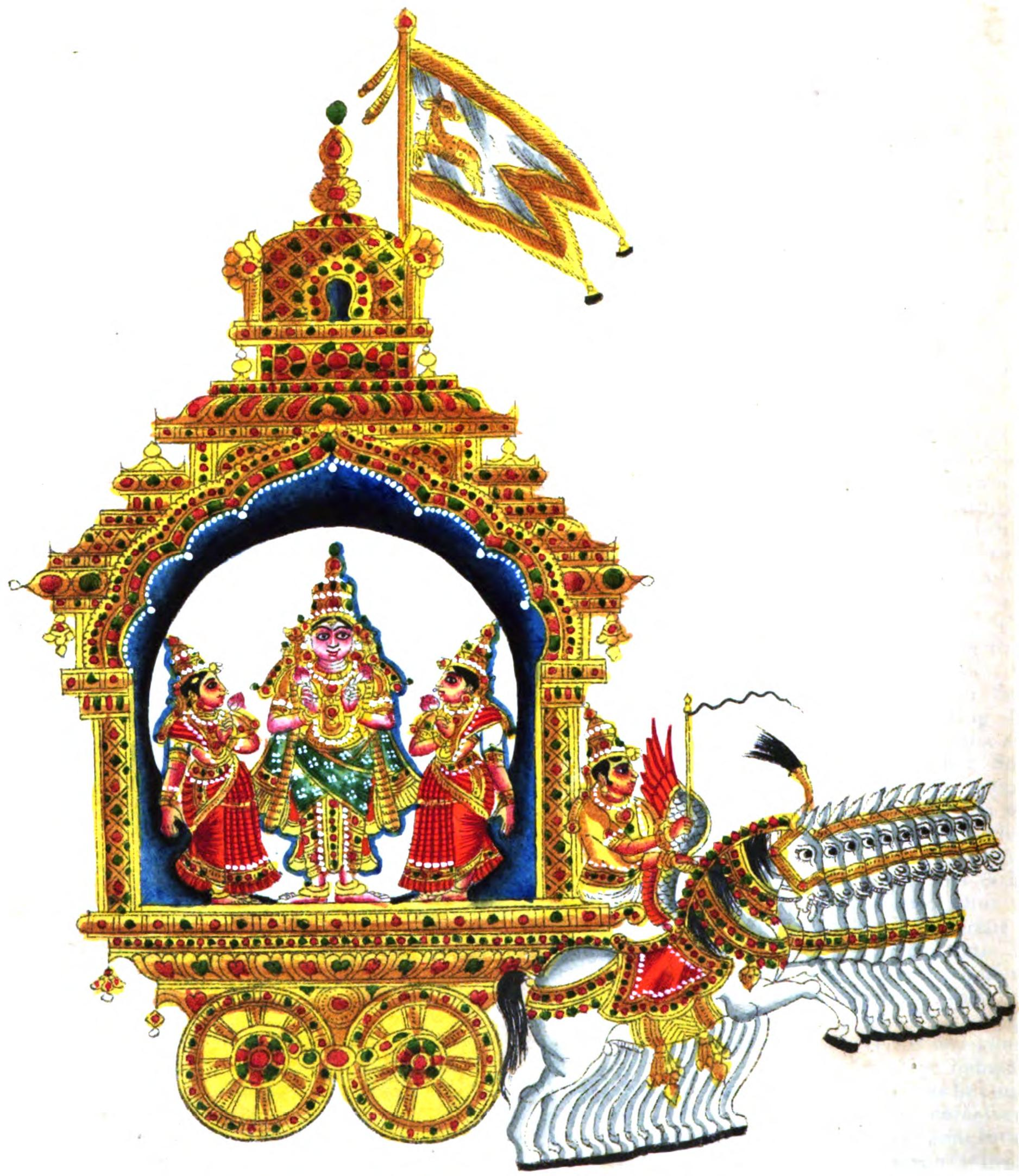 chandra